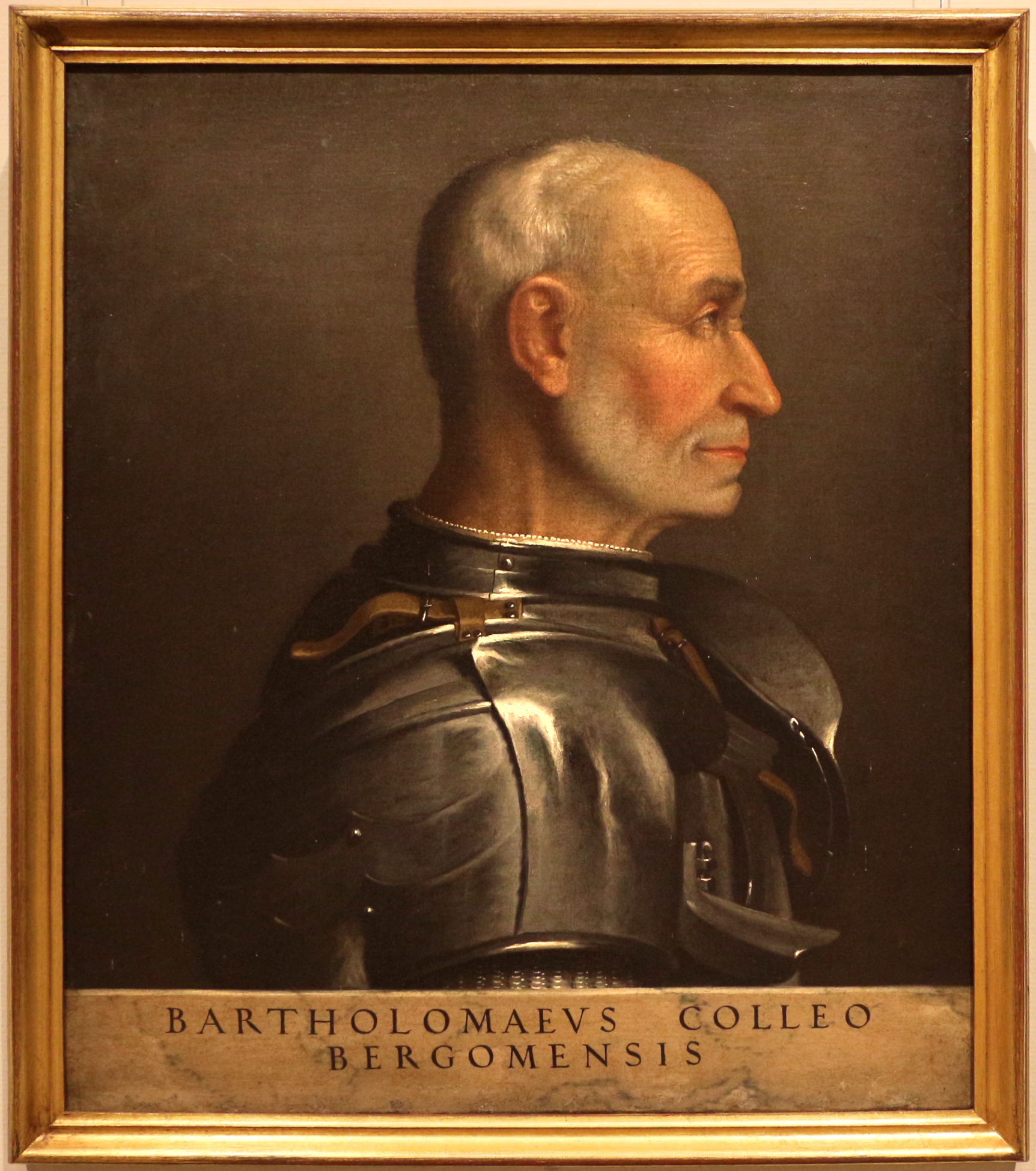 Portrait of Bartolomeo Colleoni